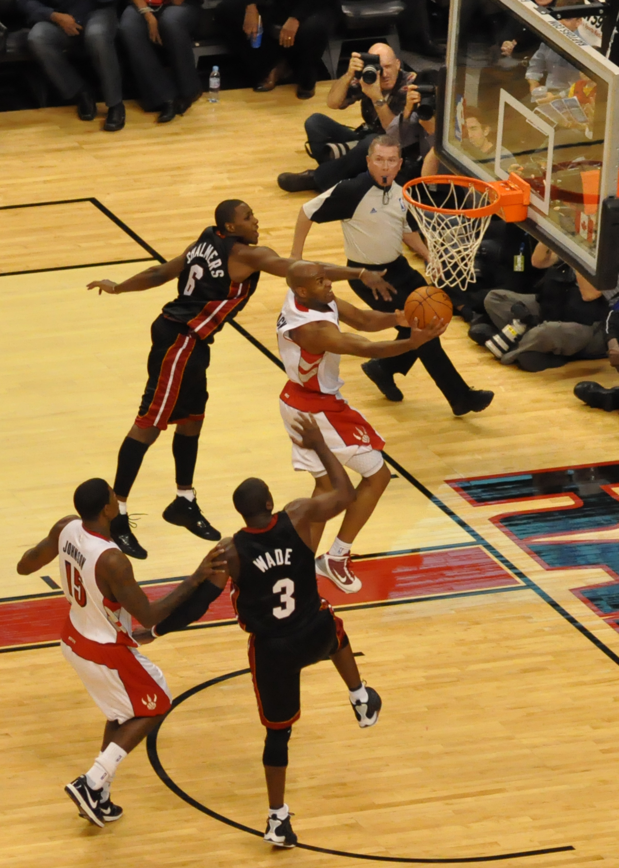 Jarrett Jack Toronto Raptors v Miami Heat 2009